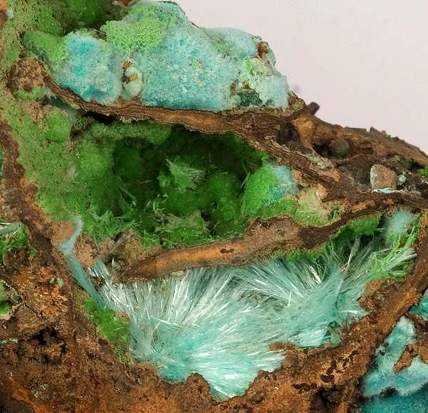 Rosasite, Conichalcite. Locality: Mohawk Mine — (Clark Station Mine; Pactolus Mine; Wilshire prospect), Mohawk Hill—Mojave Desert, Pactolus, Clark Mountain District, Clark Mts (Clark Mountain Range), San Bernardino County, California, USA (Locality at ) Size: 7.2 x 4.3 x 2.7 cm. A striking combination specimen from the Mohawk Mine of San Bernardino County, California. Powder-blue tufts and needles of rosasite are beautifully complimented by apple-green conichalcite and fill compartments on both sides of the amazing, shoe-shaped gossan matrix with excellent, box-work structure. Outstanding, rare, old-time and seldom available material from this locale. Ex. Jaime Bird Collection.